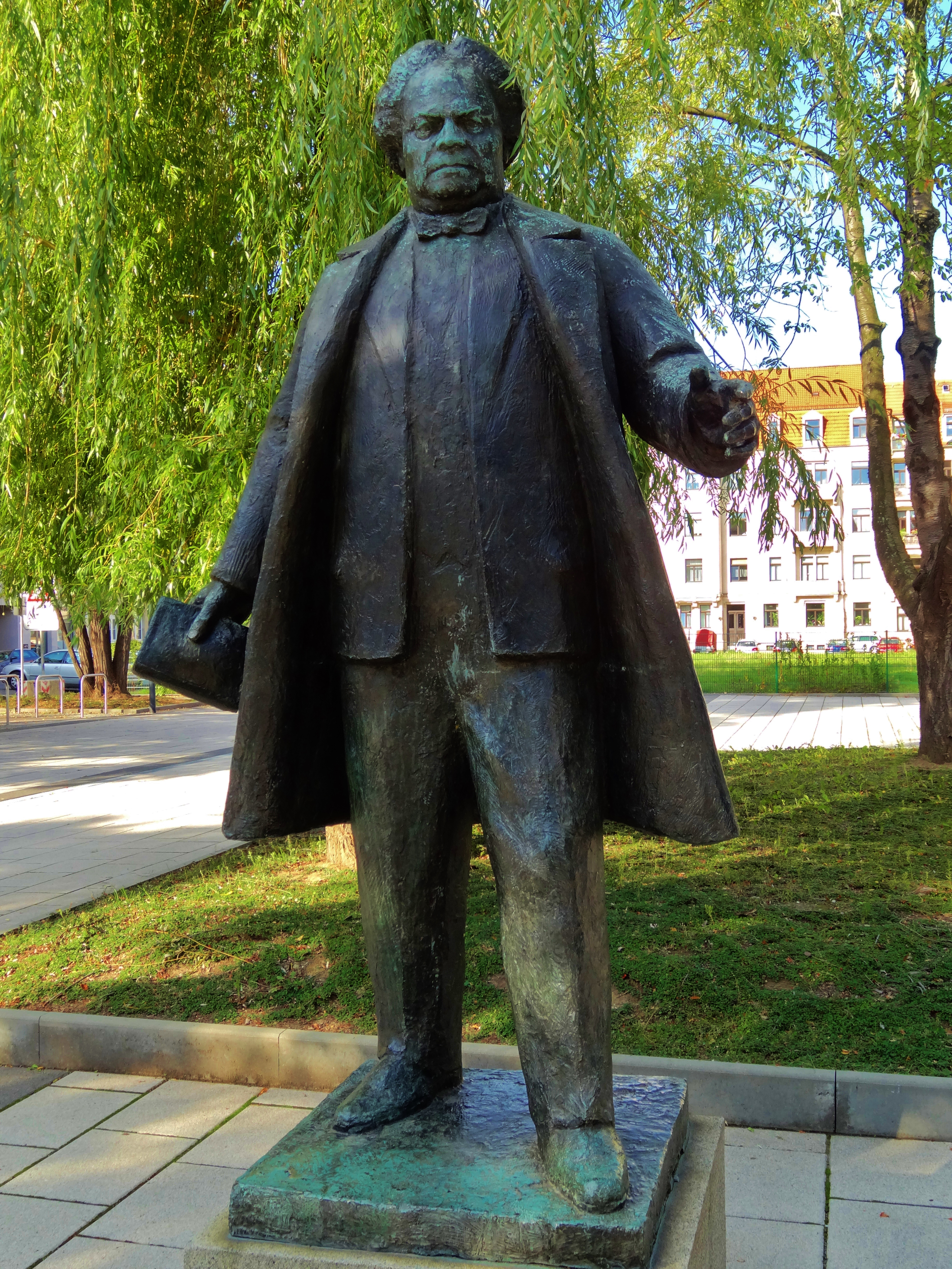 The house Haydnstraße 49 in Dresden. In the district you have many cats on the streets. cars blocking the view mostly. Many plants are here and among them trees. Kindergartens, churches are in the near as well. The most traffic is caused by employees from the near of Dresden and not by the owners renters here. Often you have no traffic and suddenly comes a car around the corners with too much speed. After the renovation of the houses here are too less or none swallows. The swans, ducks, gulls, doves ... are mostly at the Loschwitzer bridge. Steamers you can see or use as public transportation. You have seldom a police car here. Here are living more state clerks than rich or genius. Ministers and other well known politicians you can meet here in their leisure time. Noticeable is that here is being created a zone for state clerks. A wonder is that anybody knows this place and the UNESCO means that this huge area of Villas and heritage monuments would be too banal as World Heritage Site. The UNESCO is ruled by the GB, USA, FRA, RU states.